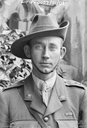 Lieutenant Clifford Sadlier VC Aust WWI AWM collection record details: Summary: Informal portrait of Lieutenant Clifford William King Sadlier VC, 51st Battalion. He was awarded the Victoria Cross for action in the second battle for Villers-Bretonneux on 24 April-25 April 1918. ID Number: D00022A Maker: Unknown Place made: United Kingdom: England, London Date made: 21 August 1918 Physical description: Black & white Copyright: Copyright expired - public domain Copyright holder: Copyright Expired Related conflict: First World War, 1914-1918